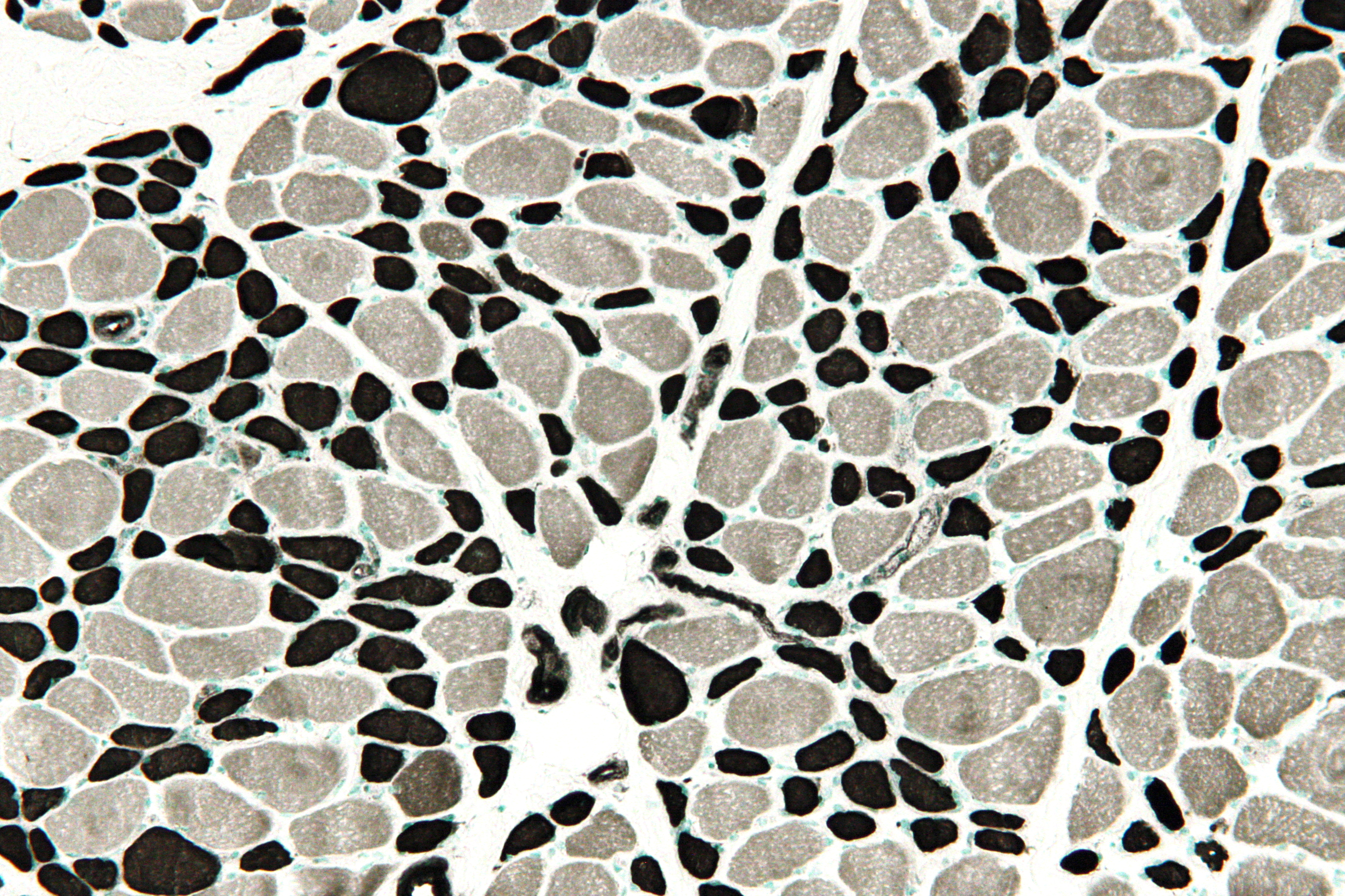 High magnification micrograph of denervation atrophy of type 2 fibres. ATPase pH 9.4 stain. Muscle biopsy. There is fibre type group, group atrophy and prominent target fibres. The ATP9.4 stain demonstrates atrophy of type 2 fibres. Related images Intermed. mag. High mag. Very high mag. High mag. SDH. Very high mag. SDH. Intermed. mag. ATPase pH 9.4. High mag. ATPase pH 9.4.